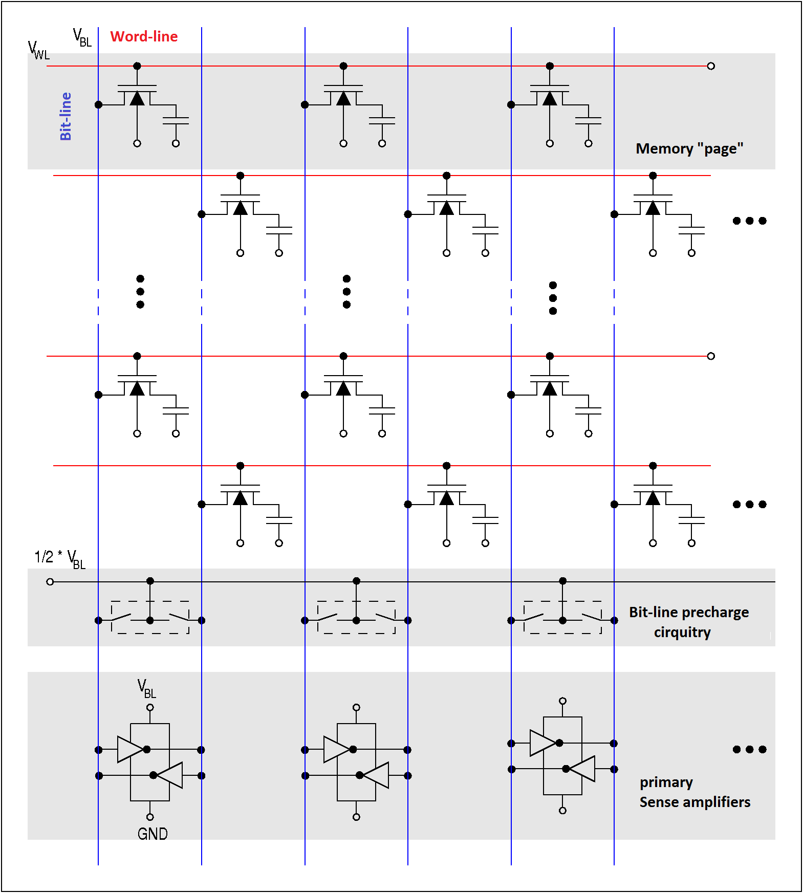 Basic structure of a DRAM cell array. (English translation from German Wikipedia made by me.)